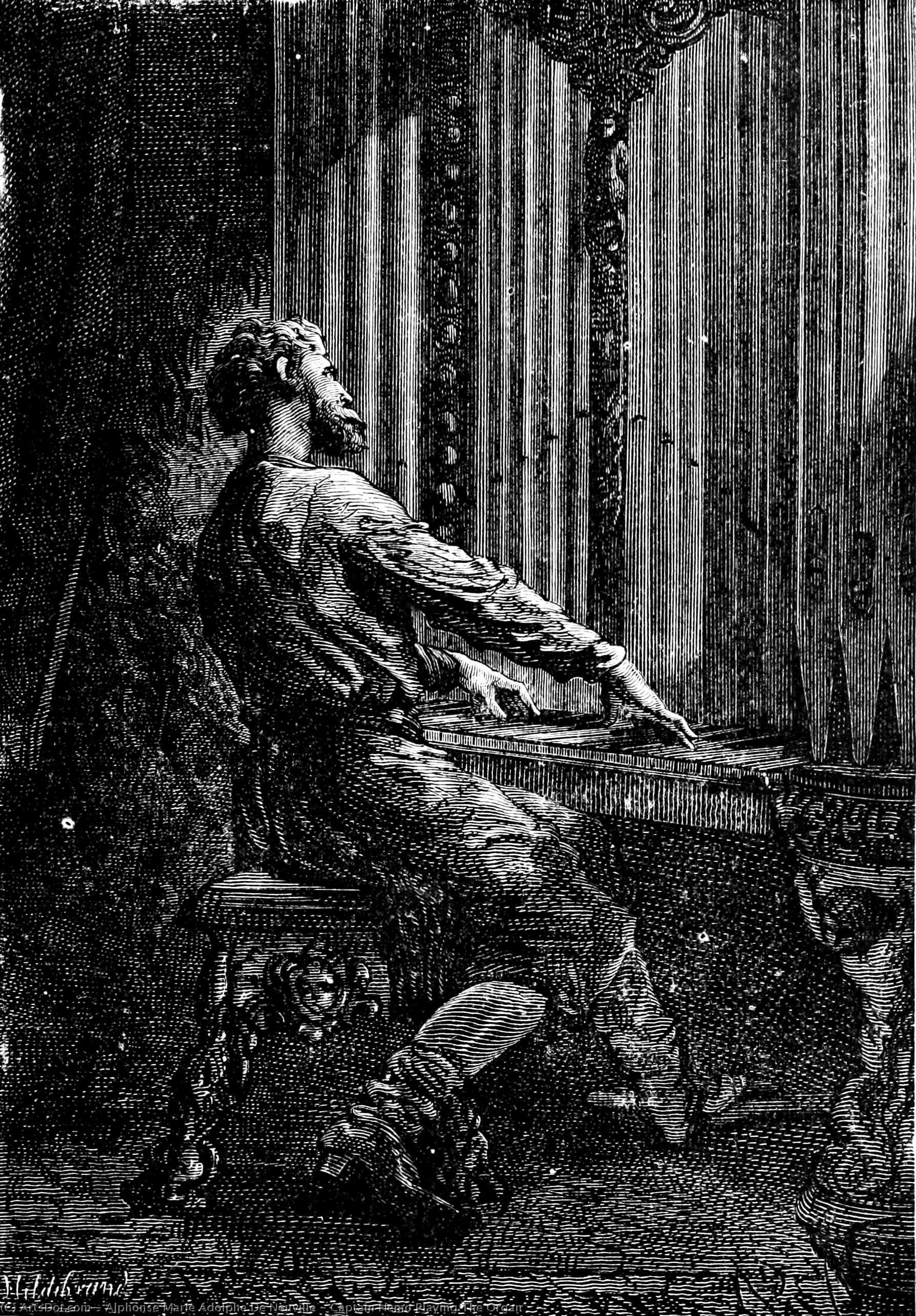 CAPTAIN NEMO PLAYING THE ORGAN by ALPHONSE MARIE ADOLPHE DE NEUVILLE